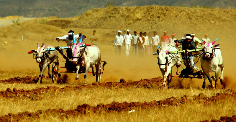 In Pune, bullock-cart races are regularly held in Bhosari, Khed and the adjoining rural areas. These events are also a key feature of the Pune Festival organized during the Ganapati festival. The organizers have justified these races on the grounds that they are being held for over 300 years as a tradition and often attract large number of people, generate revenue for the state and provide enjoyment to participants. They had also argued that the sport could be regulated but not banned, citing the Tamil Nadu Regulation of Jallikattu (TNRJ)